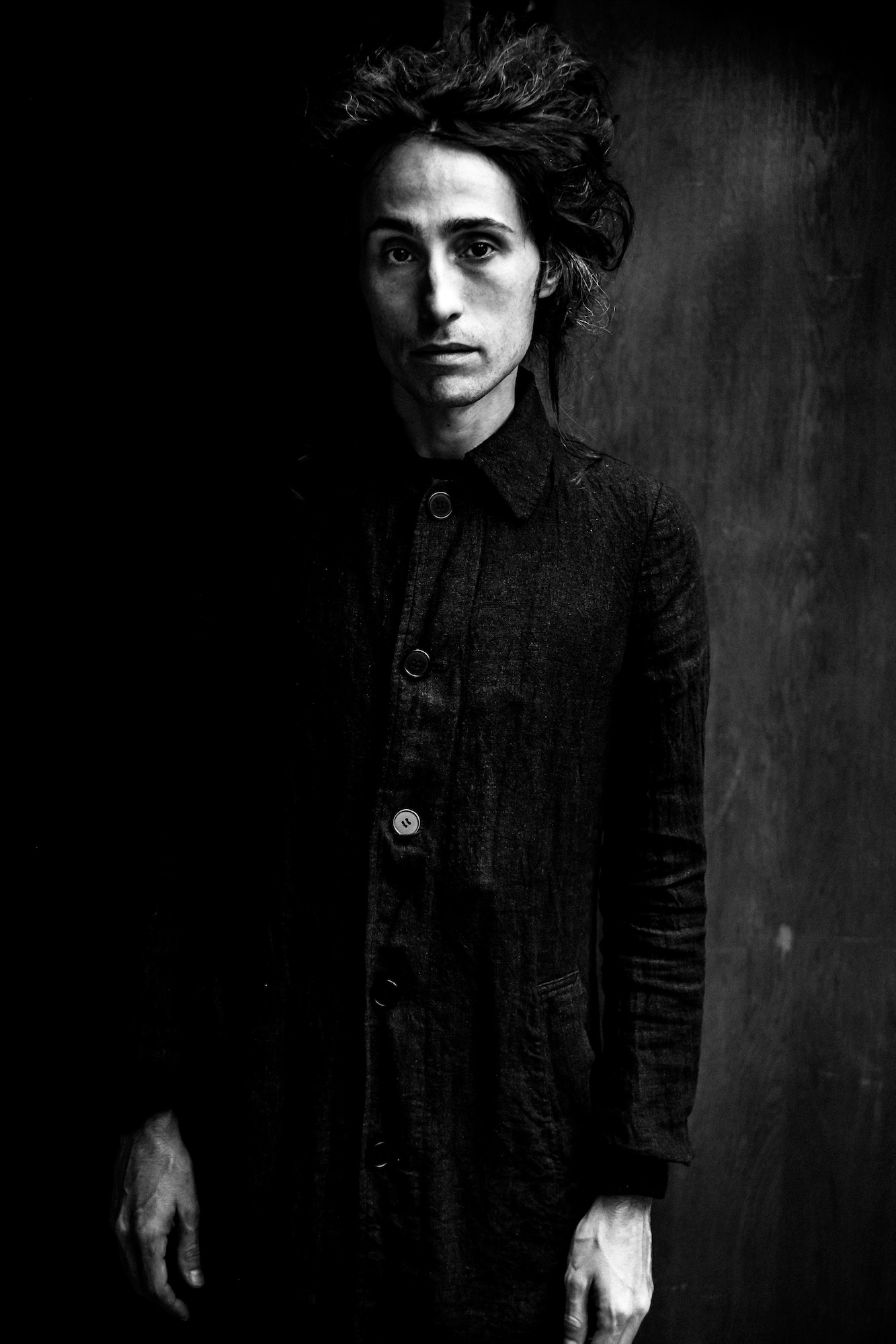 Fondation Cartier 2013 (2 of 2)